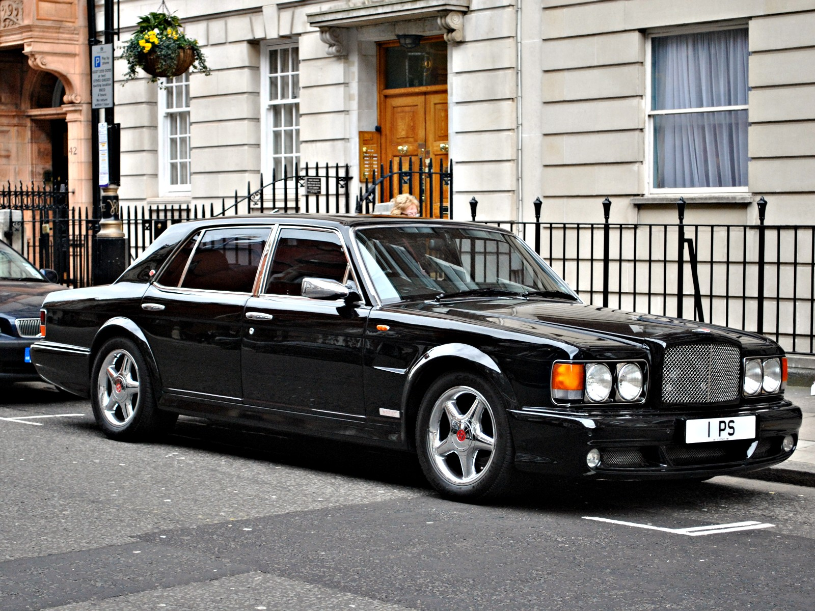 1998 Bentley Turbo RT Mulliner, pictured in London. The very limited edition (56 built) Mulliner features large extraction vents behind the front wheels and has more sculpted bumpers than the "regular" RT. This particular example has the small rear "Mulliner" windshield